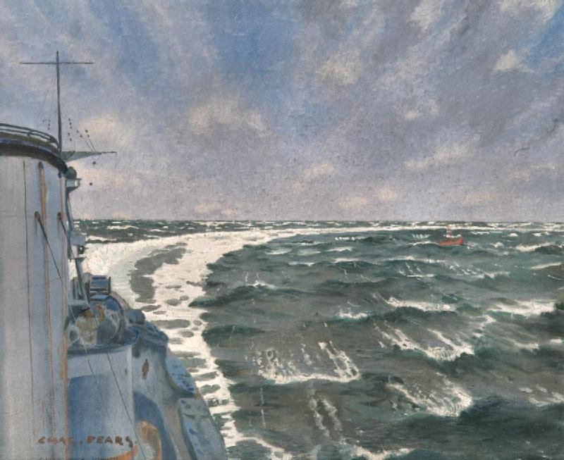 The Wake. HMS Courageous at Top Speed image: The Royal Navy light cruiser HMS Courageous at sea in the Firth of Forth. The scene is viewed from the bridge of the ship looking back across the ship's superstructure towards the stern, with a long plume of white showing in the sea water in the ship's wake.